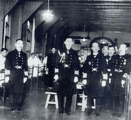 Yoshikazu Endo is an Imperial Japanese Navy admiral.